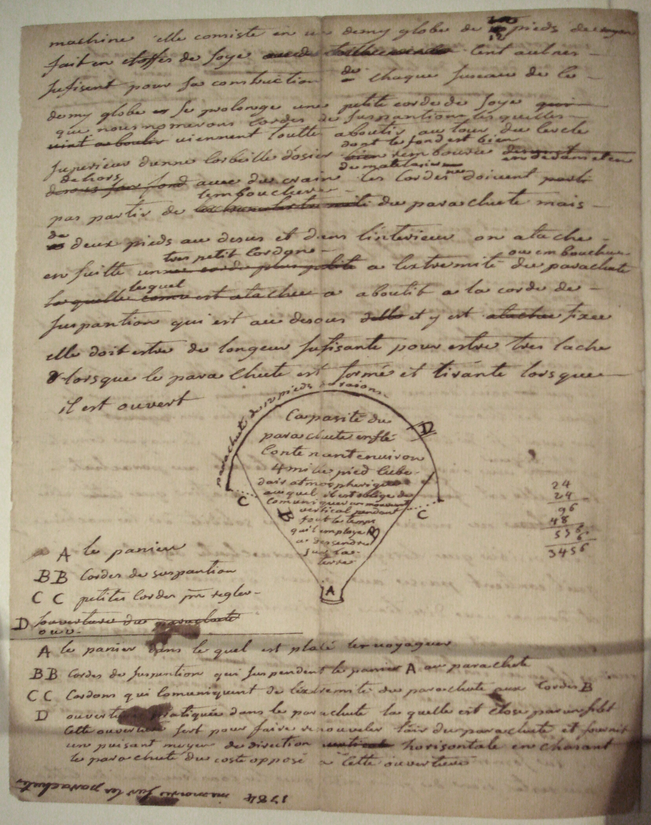 Manuscript_of_Montgolfier_describing_his_machine_1784